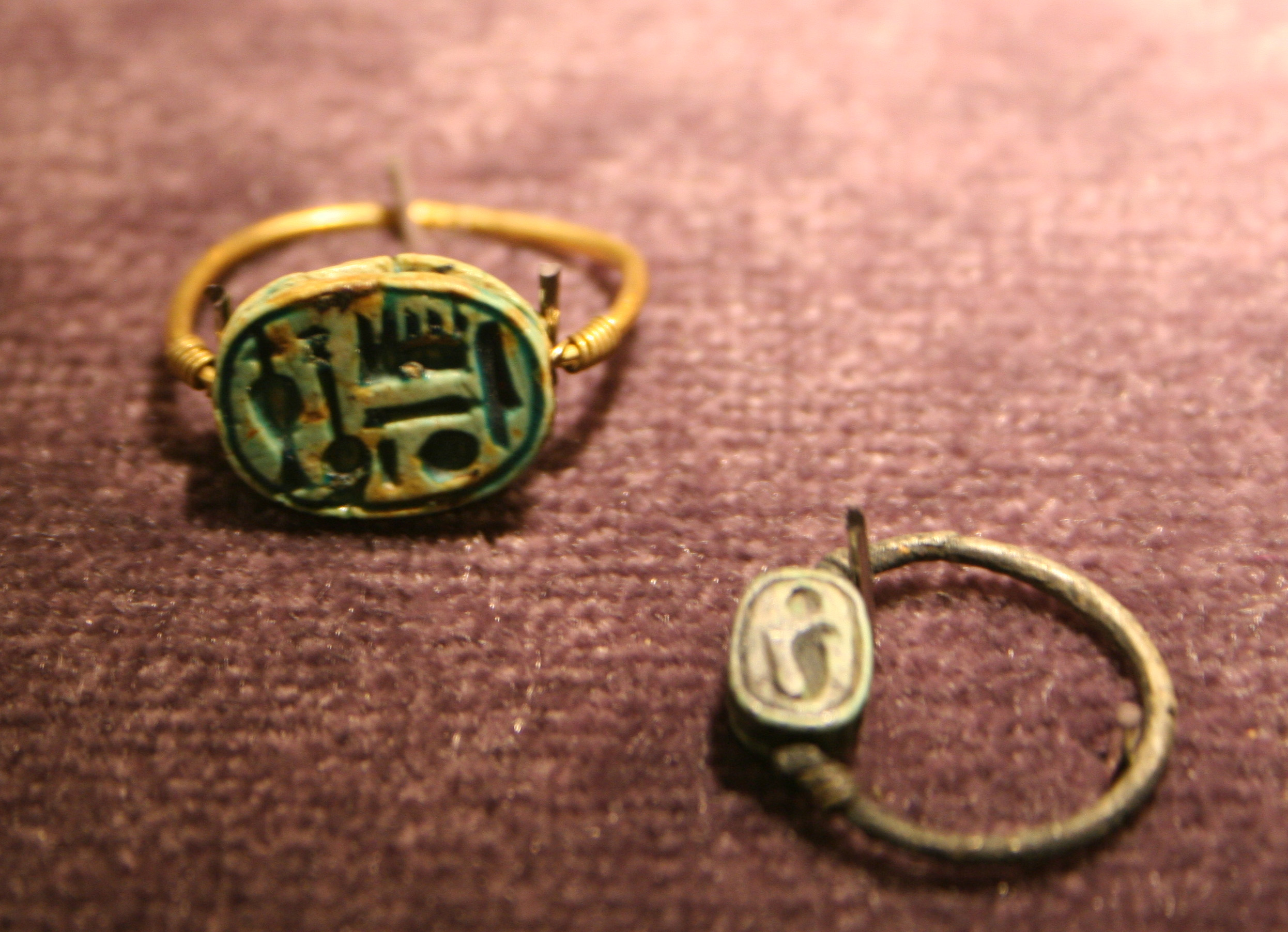 Roemer- und Pelizaeus-Museum, Hildesheim